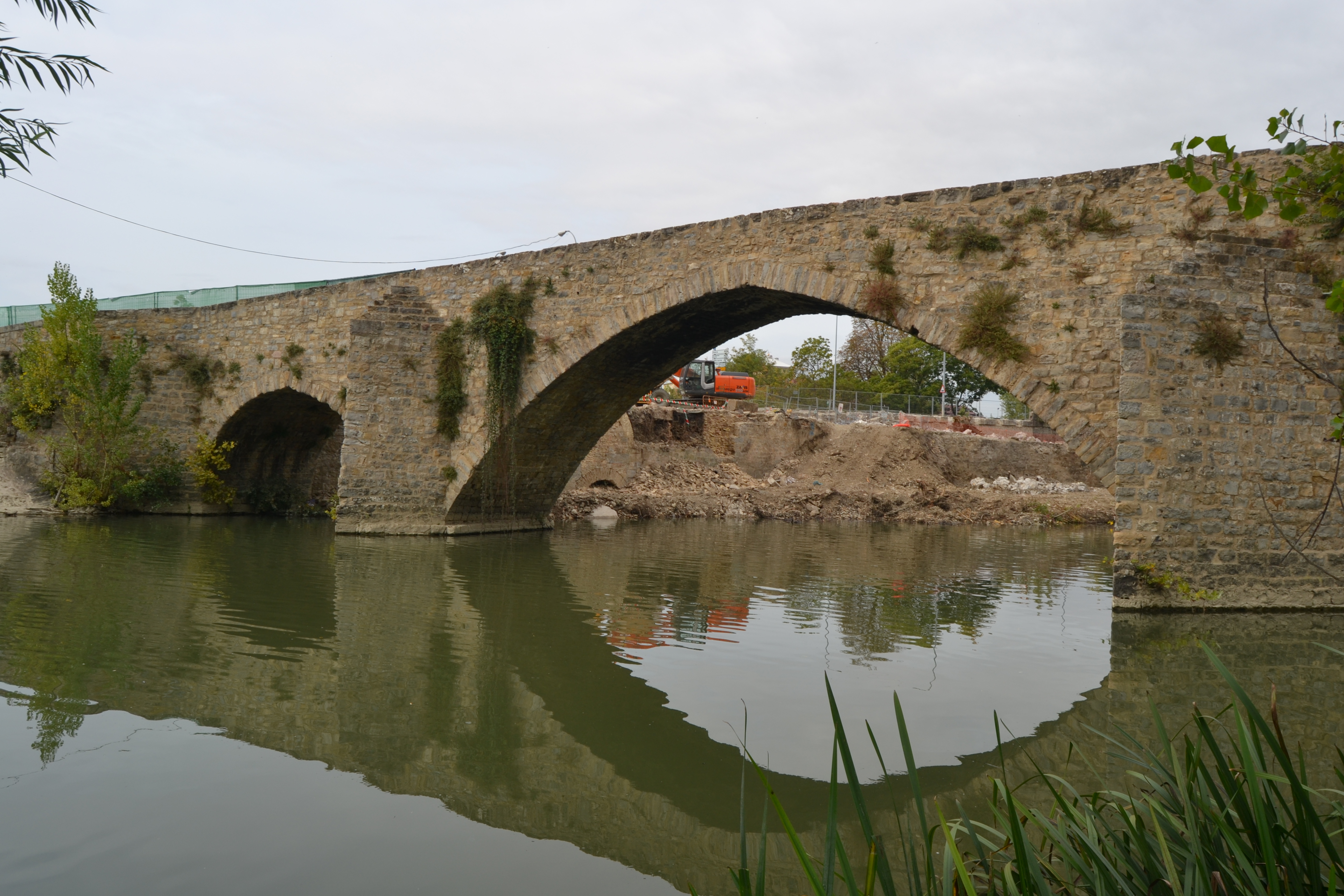 Dona Grazia Bridge. Iruñea-Pamplona, Navarre. Basque Country.